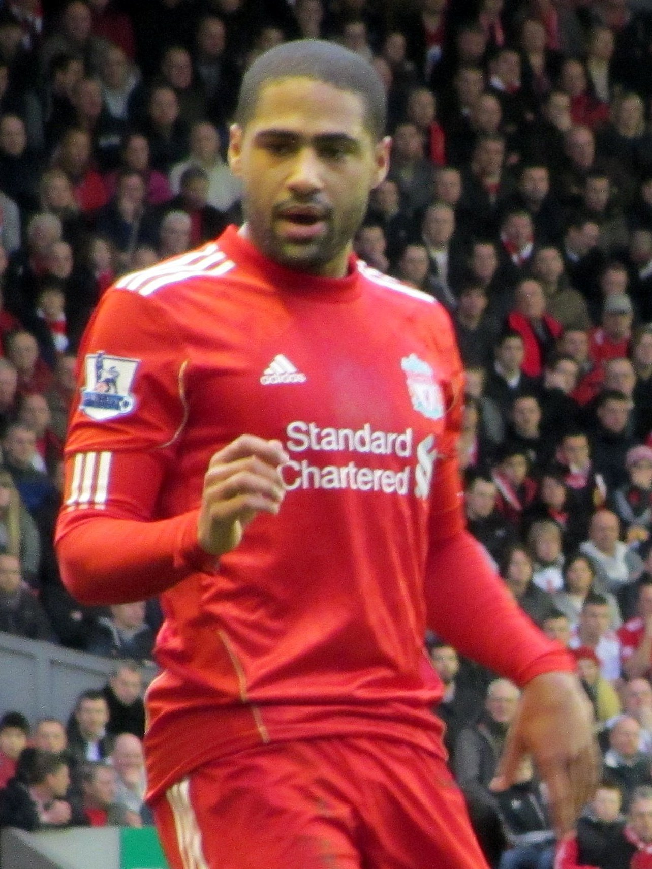 Johnson during the game against Blackburn Rovers